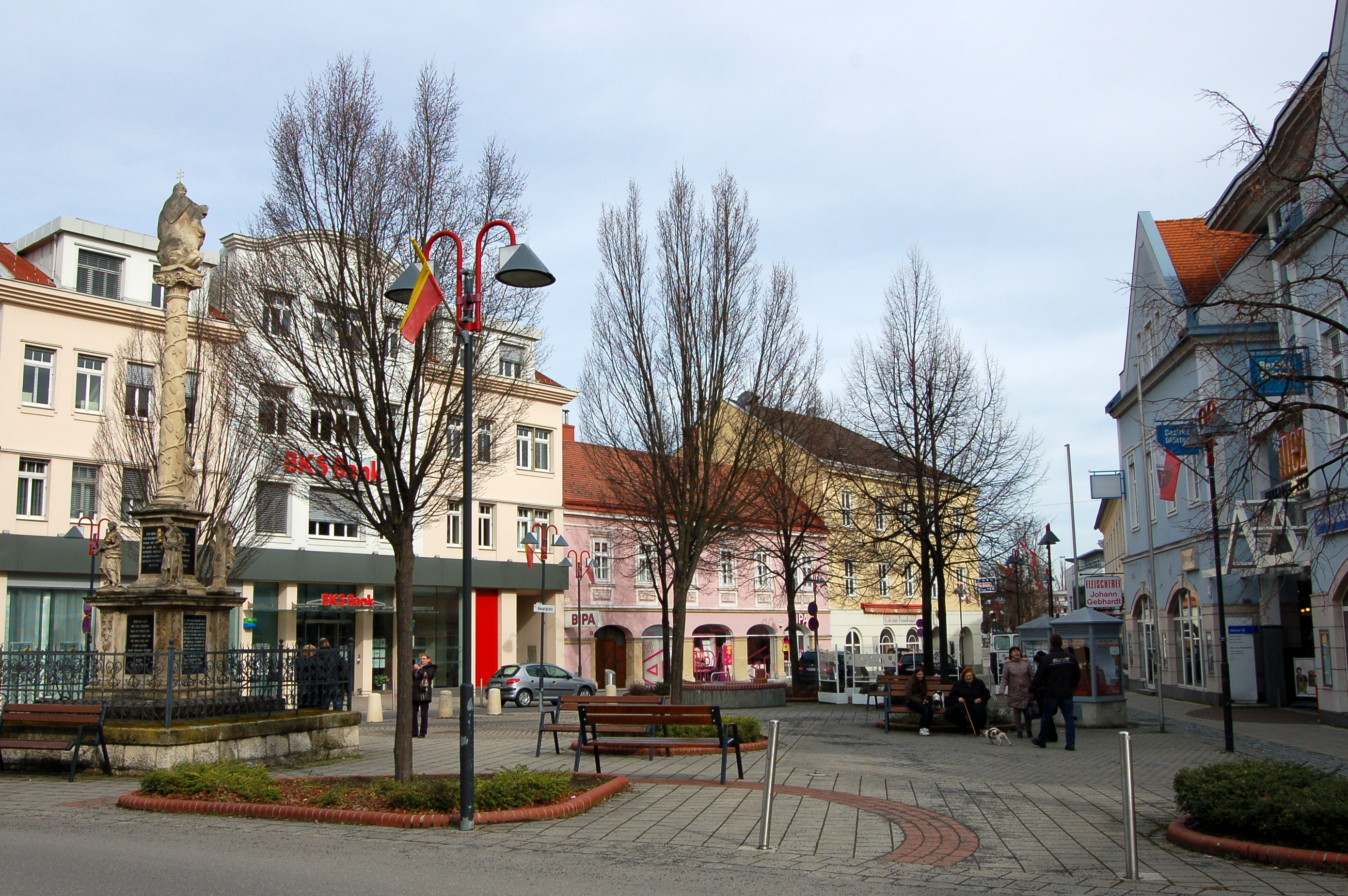 Main square of Mattersburg, Burgenland, Austria; view towards northeast